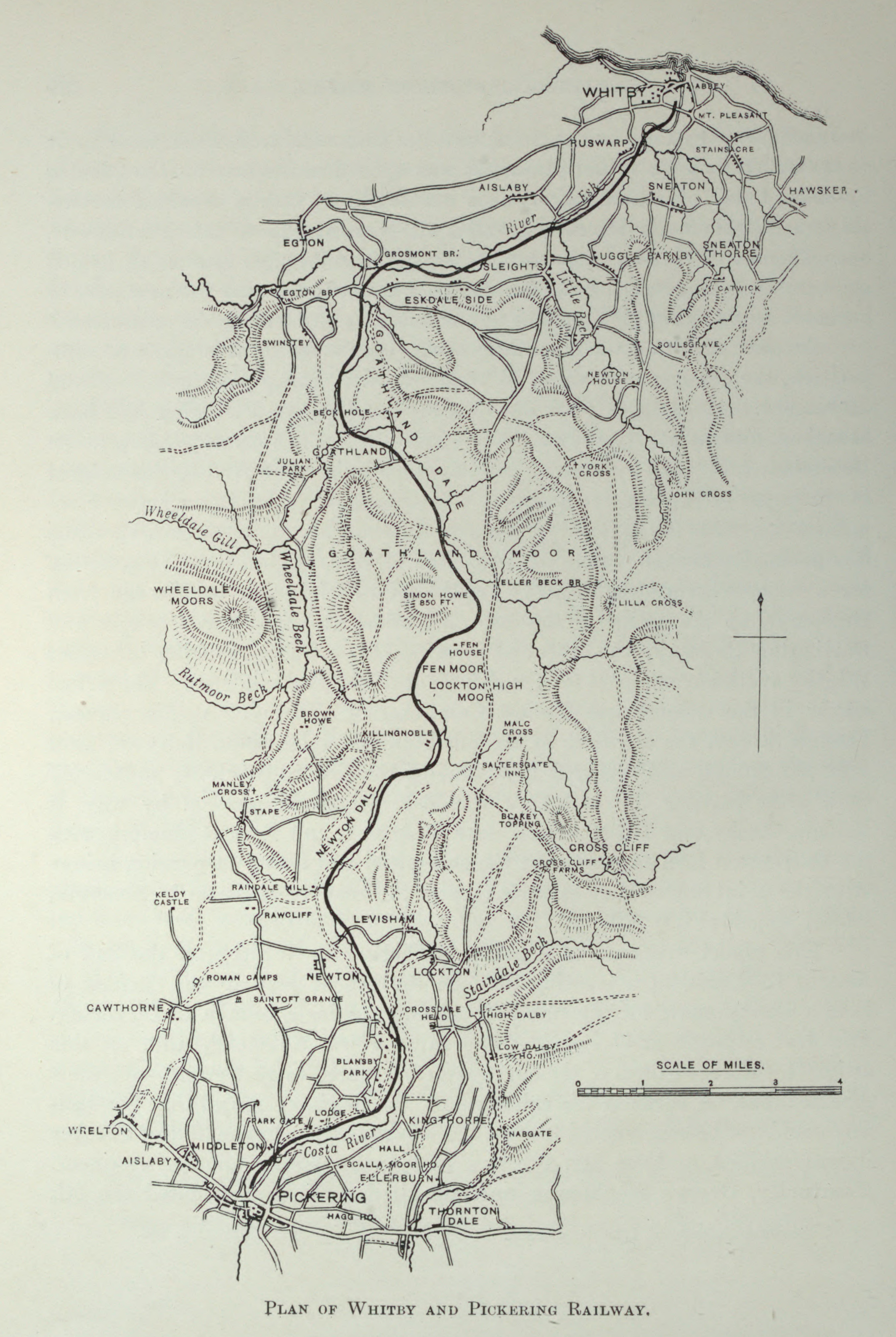 See list of illustrations in souce pages ix to xvi Descriptions are associated with images, also check index for additional text